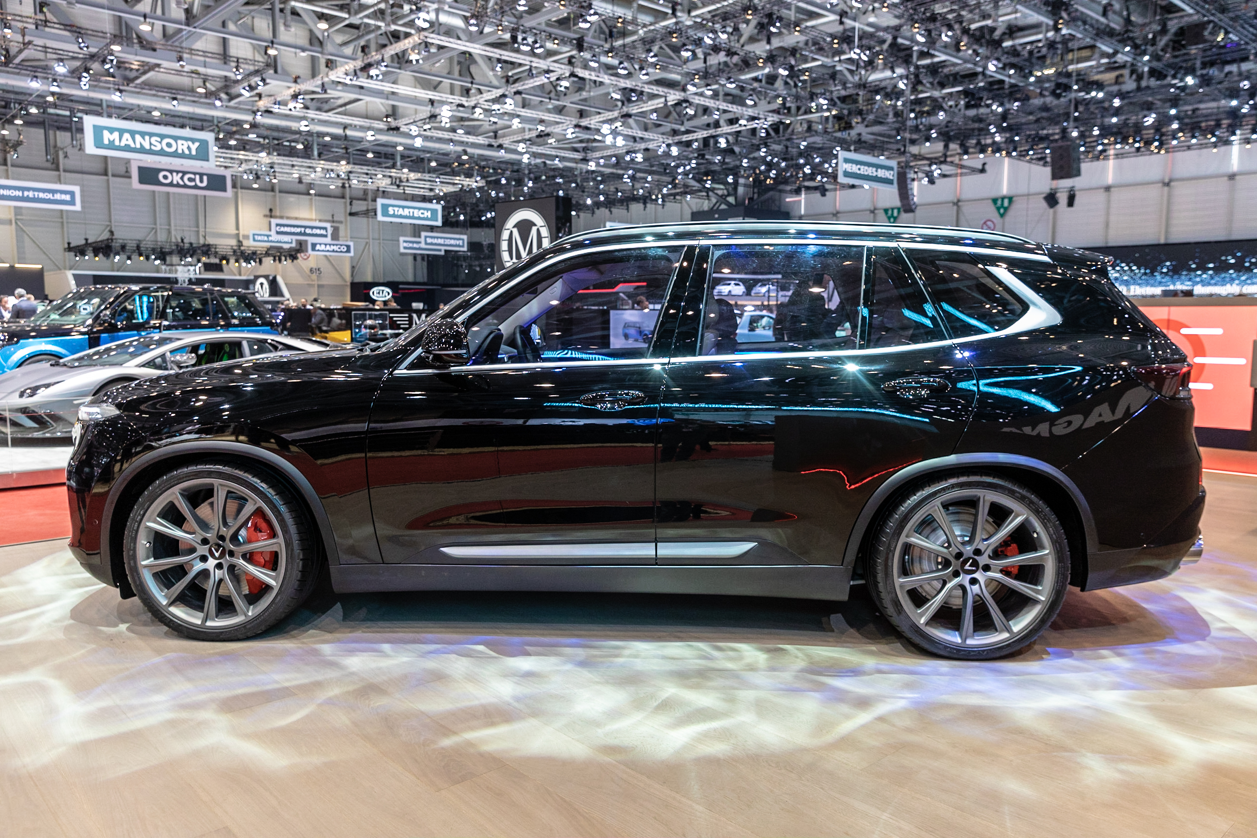 VinFast limited edition V8 SUV at Geneva International Motor Show 2019, Le Grand-Saconnex